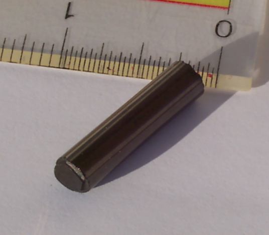 This is a picture I took of a small rod of glassy carbon.